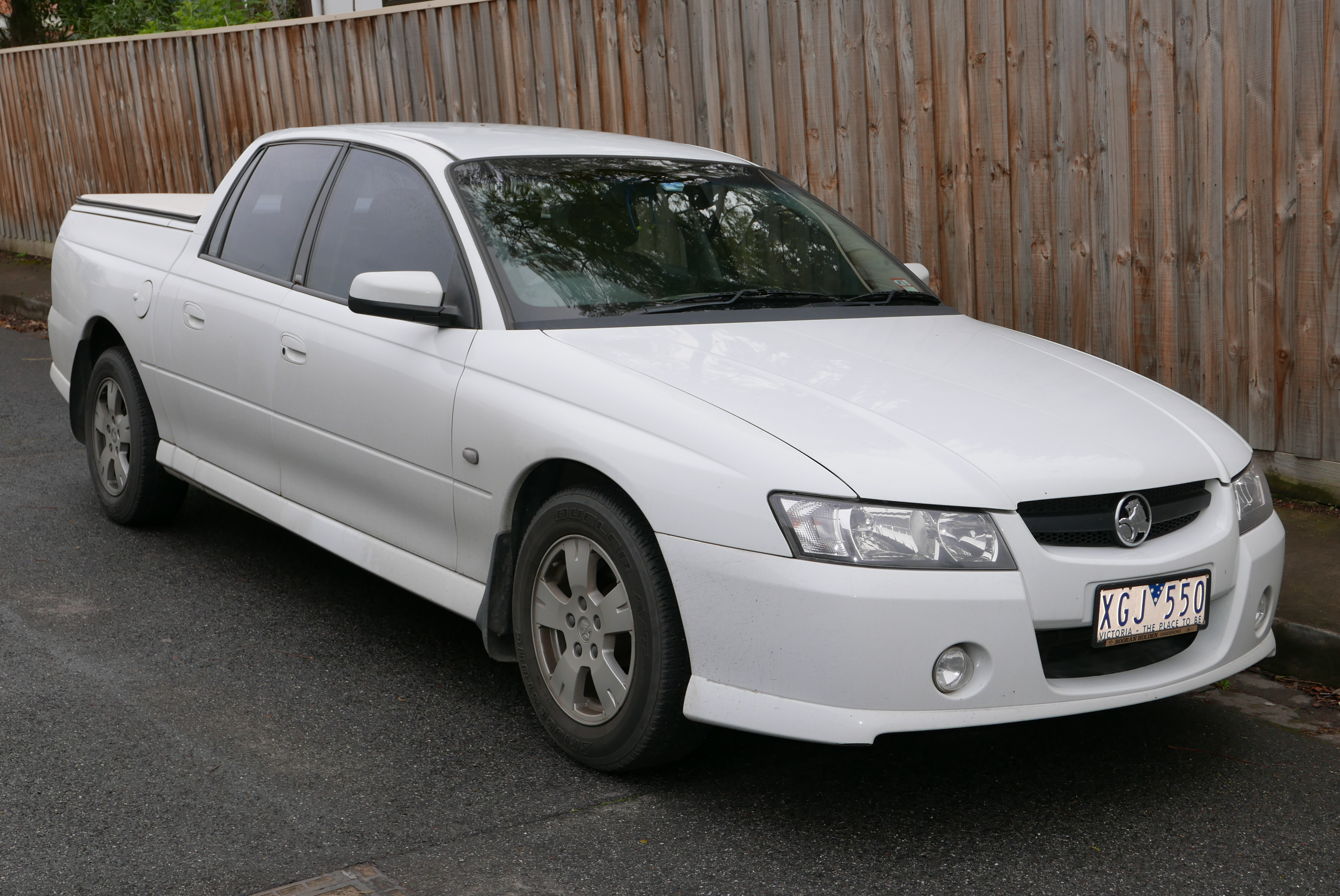 2006 Holden Crewman (VZ MY06) S utility. Photographed in Ivanhoe, Victoria, Australia. Vehicle registration enquiry resultsJurisdictionVictoriaRegistrationXGJ550Chassis code6G1ZK34B46L837321Engine codeHBH061500307Compliance date2006-06Year of manufacture2006